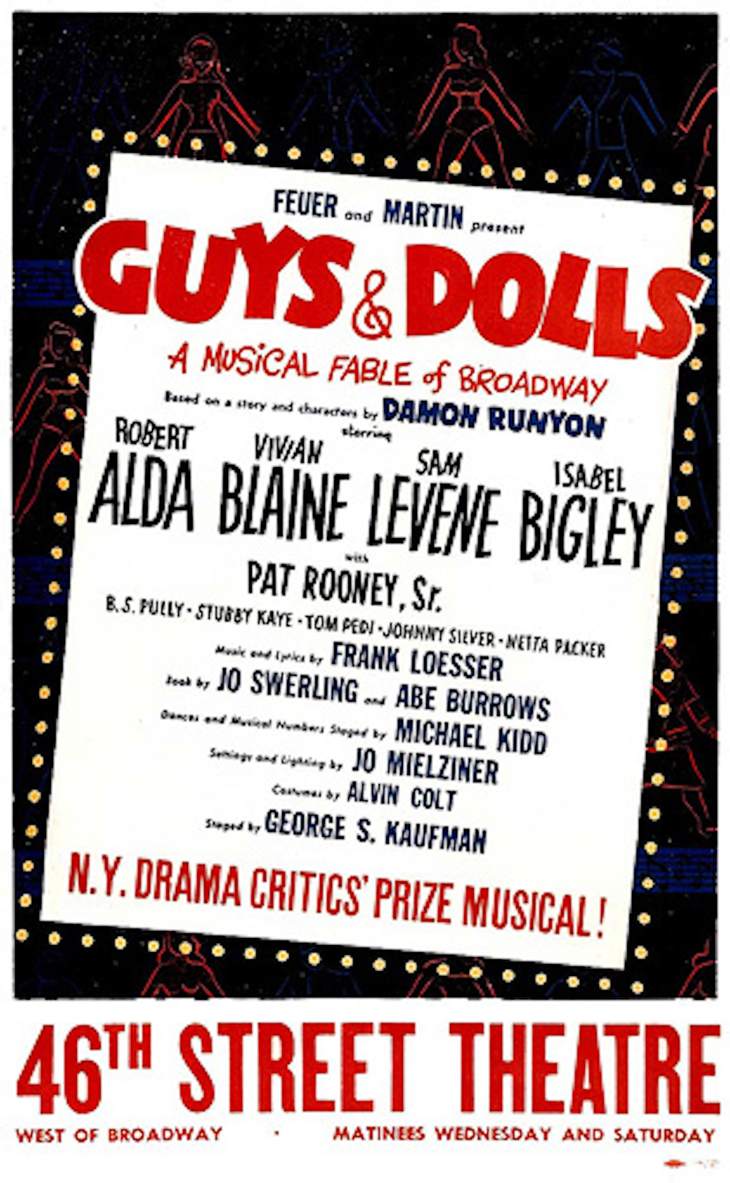 Theatrical Poster from original Broadway production